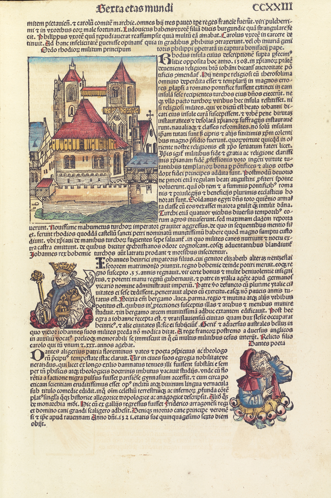 Page from the Nuremberg Chronicle (Latin copy in Sao Paulo)